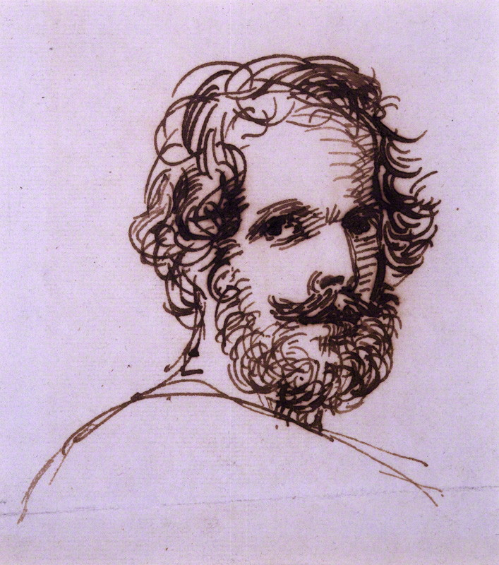 Edward John Trelawny by Joseph Severn, 1838